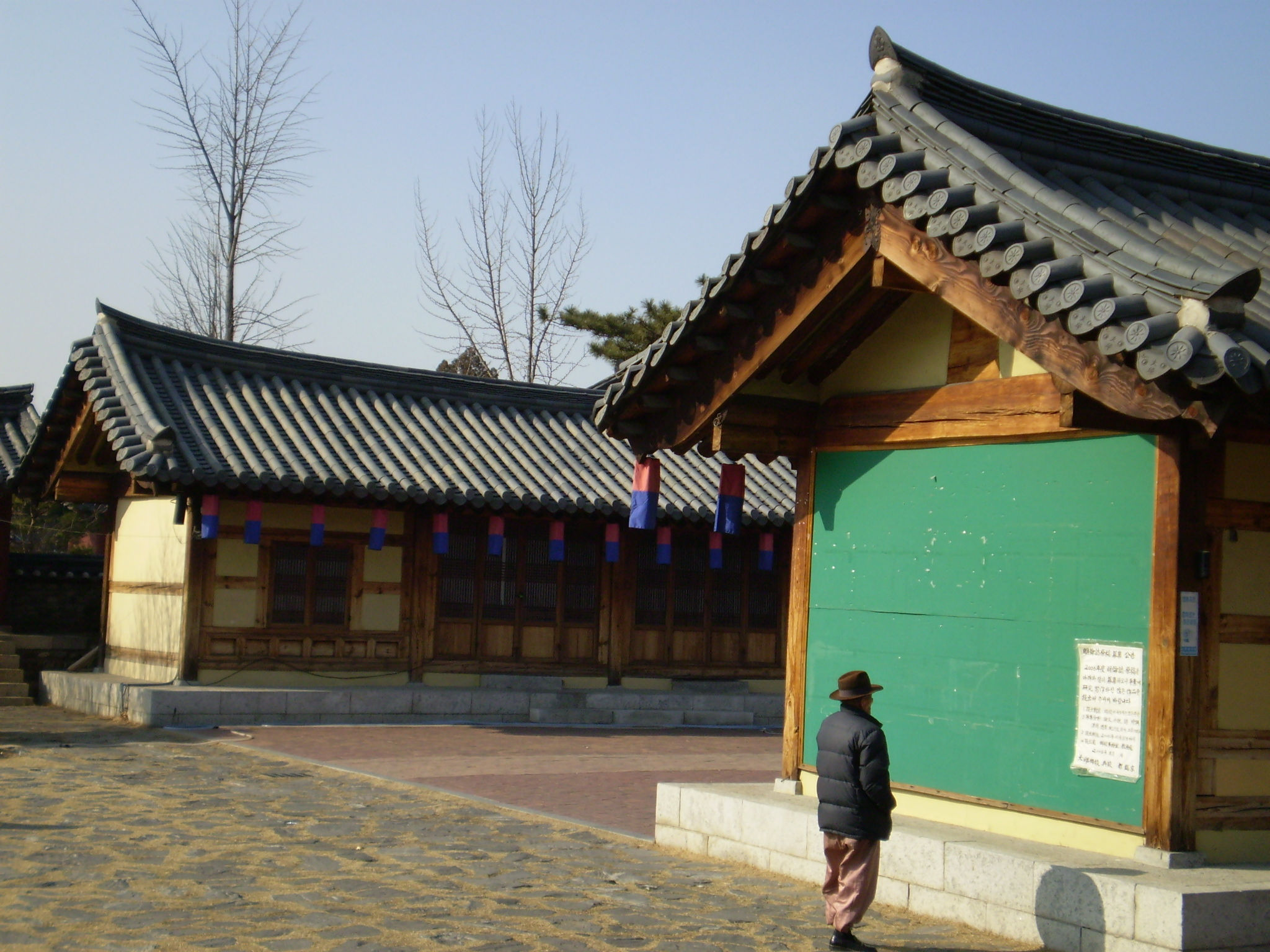 East (동재) and west (서재) dormitories at the Daegu hyanggyo in Daegu, South Korea.